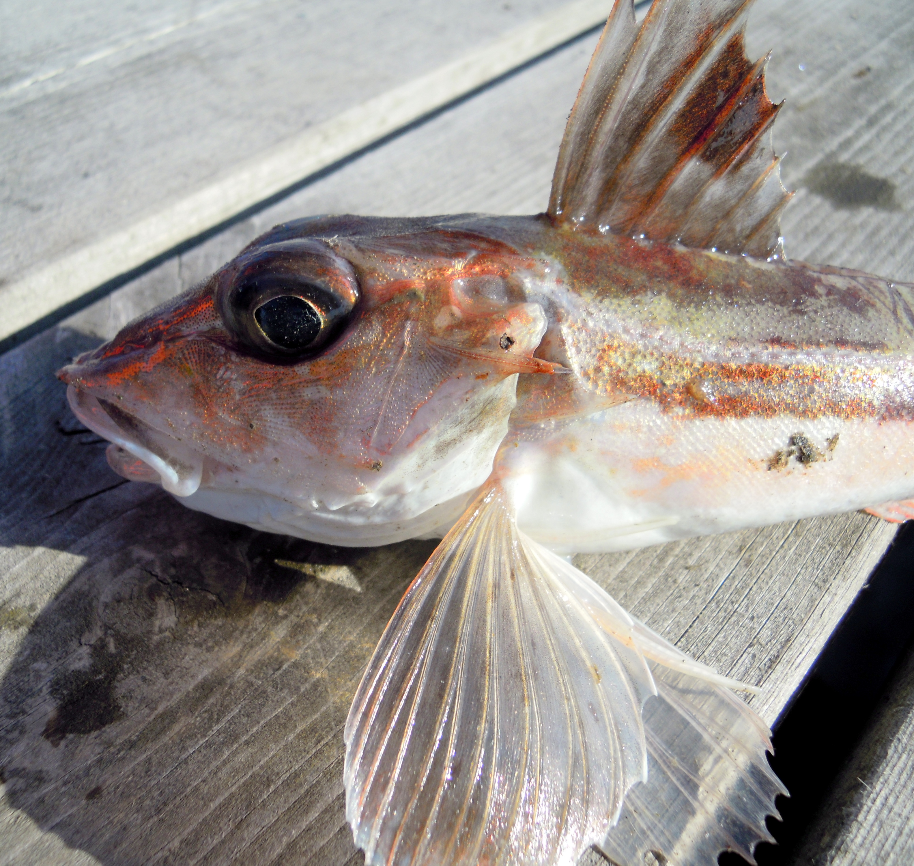 Gurnard in Norway